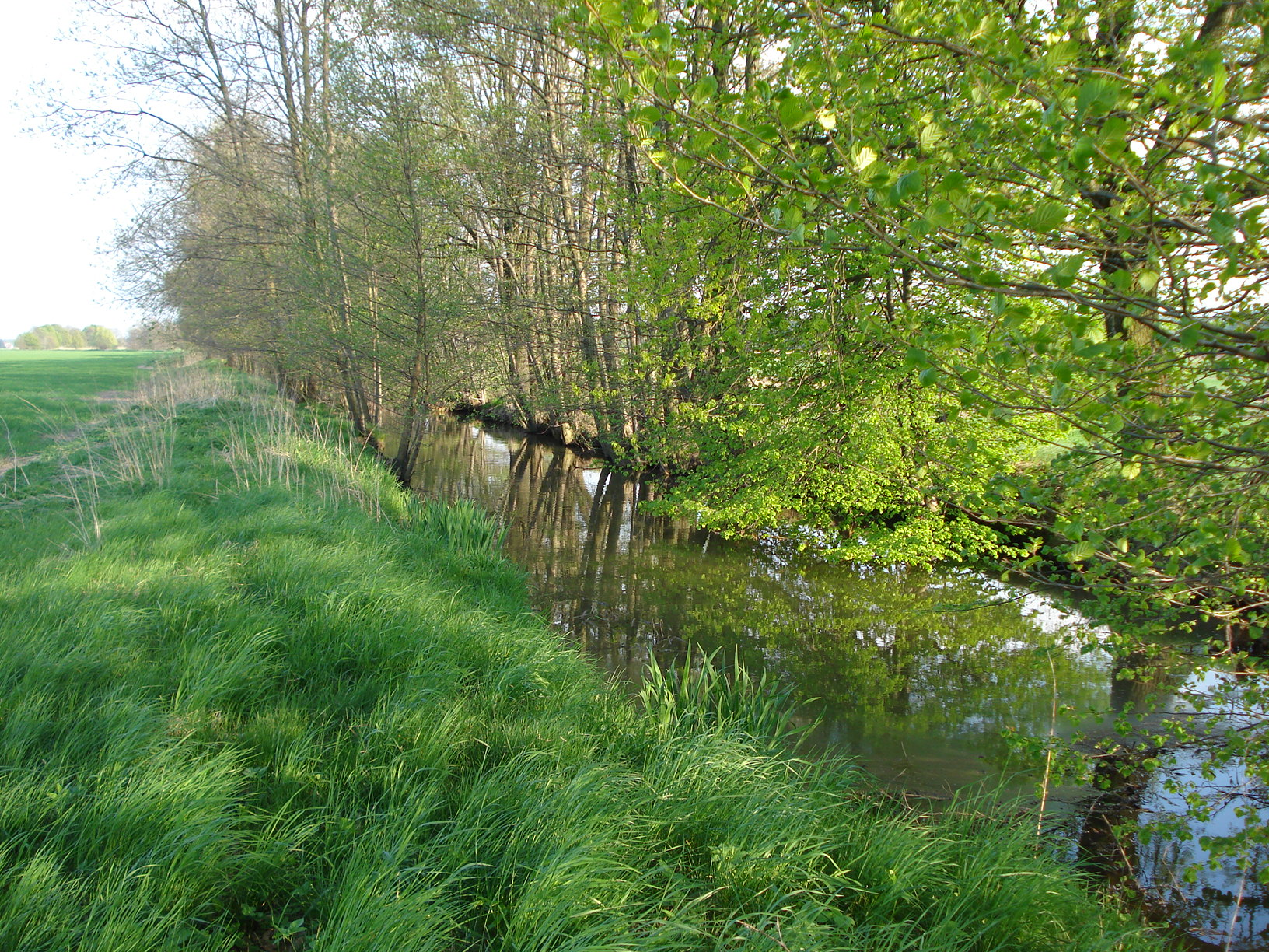 Weißer Schöps near Daubitz